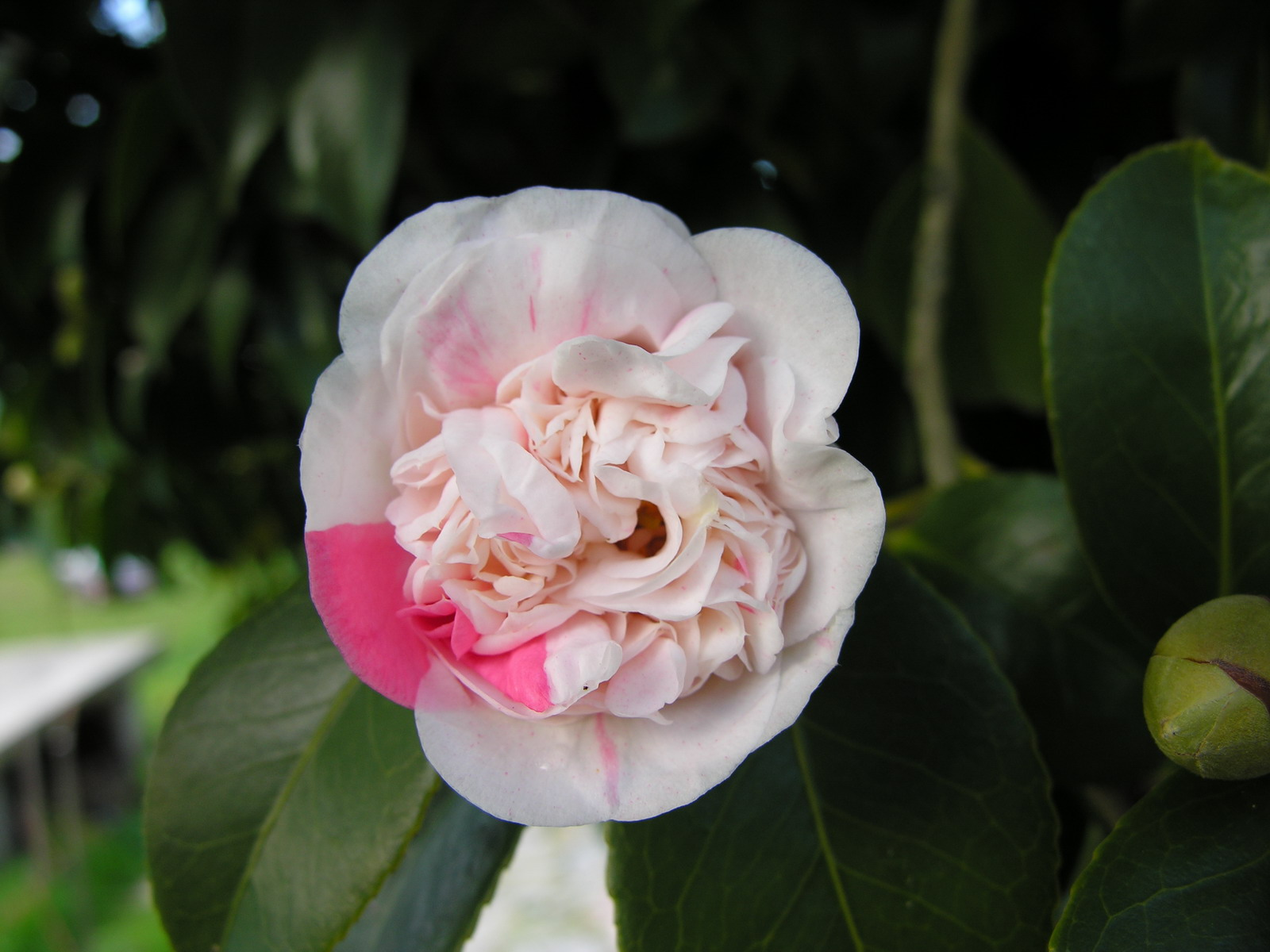 Flower of what is most probably Camellia japonica 'Aspasia Macarthur'.